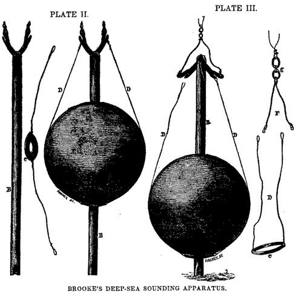 Maury_plates 2 and 3 from Physical Geography Of The Sea by USN Lieutenant Matthew Fontaine Maury, U.S.N. This is a public domain image that I scanned & cleaned.